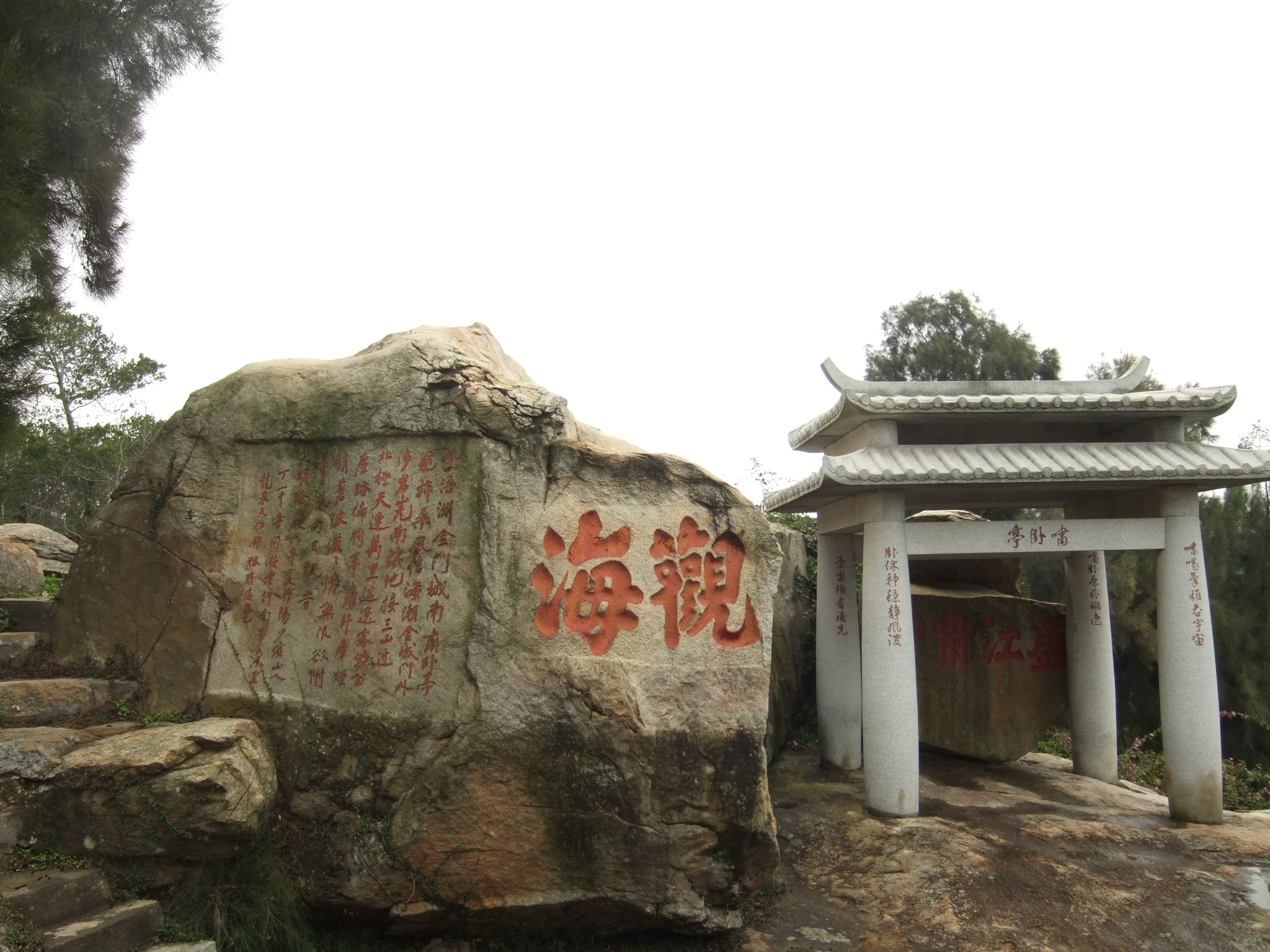 Stones with (supposedly) ancient inscriptions, one of them protected with a gazebo, next to Wentai Pagoda, Kinmen.